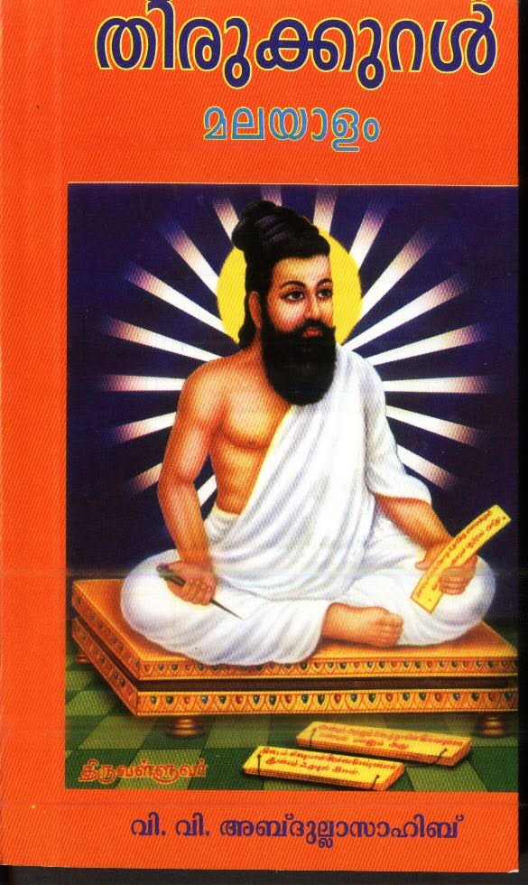 Thirukural